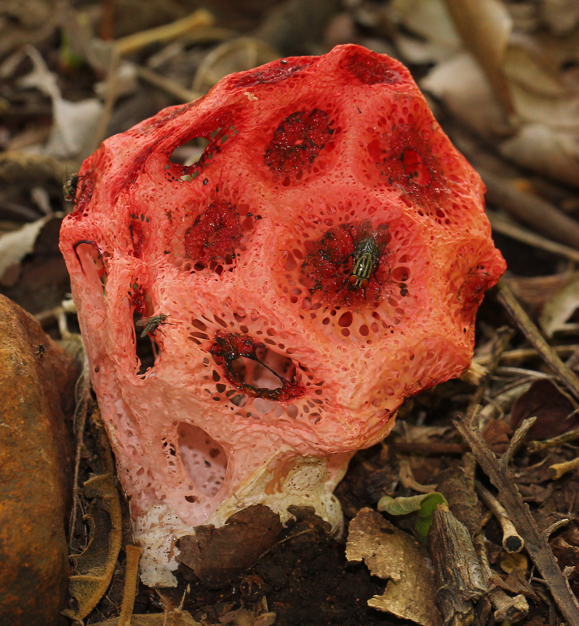 Clathrus crispus Turpin